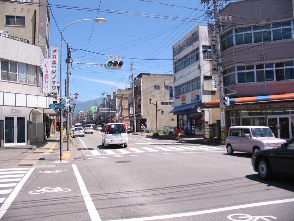 The Aioicho Intersection in Saku City, Nagano Prefecture, Japan